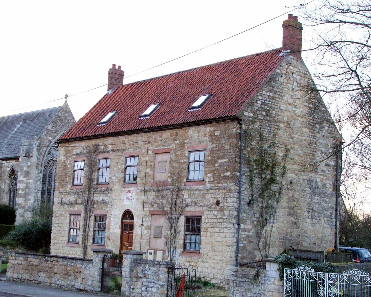 Clint Lane in Navenby in Lincolnshire, England.